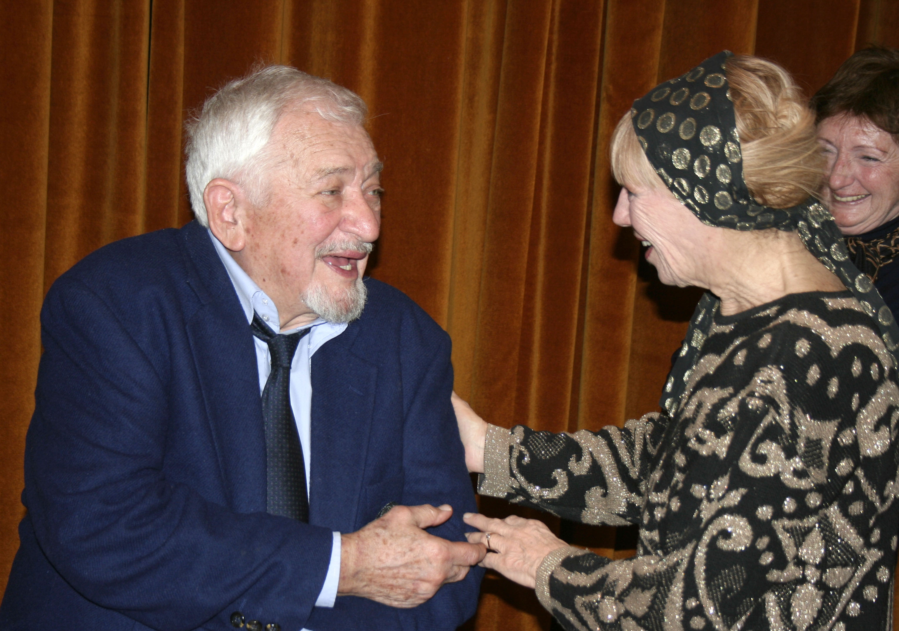 Sándor Makay and his longtime colleague Dorottya Geczy 2013